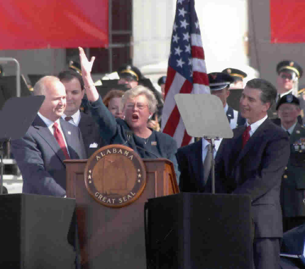 "So help me God," declared Camden native Kay Ivey, as she completed taking the Oath of Office as Alabama's new State Treasurer on January 20, 2003. Ms. Ivey asked Congressman Bonner, also a Camden native, to administer her the Oath of Office.